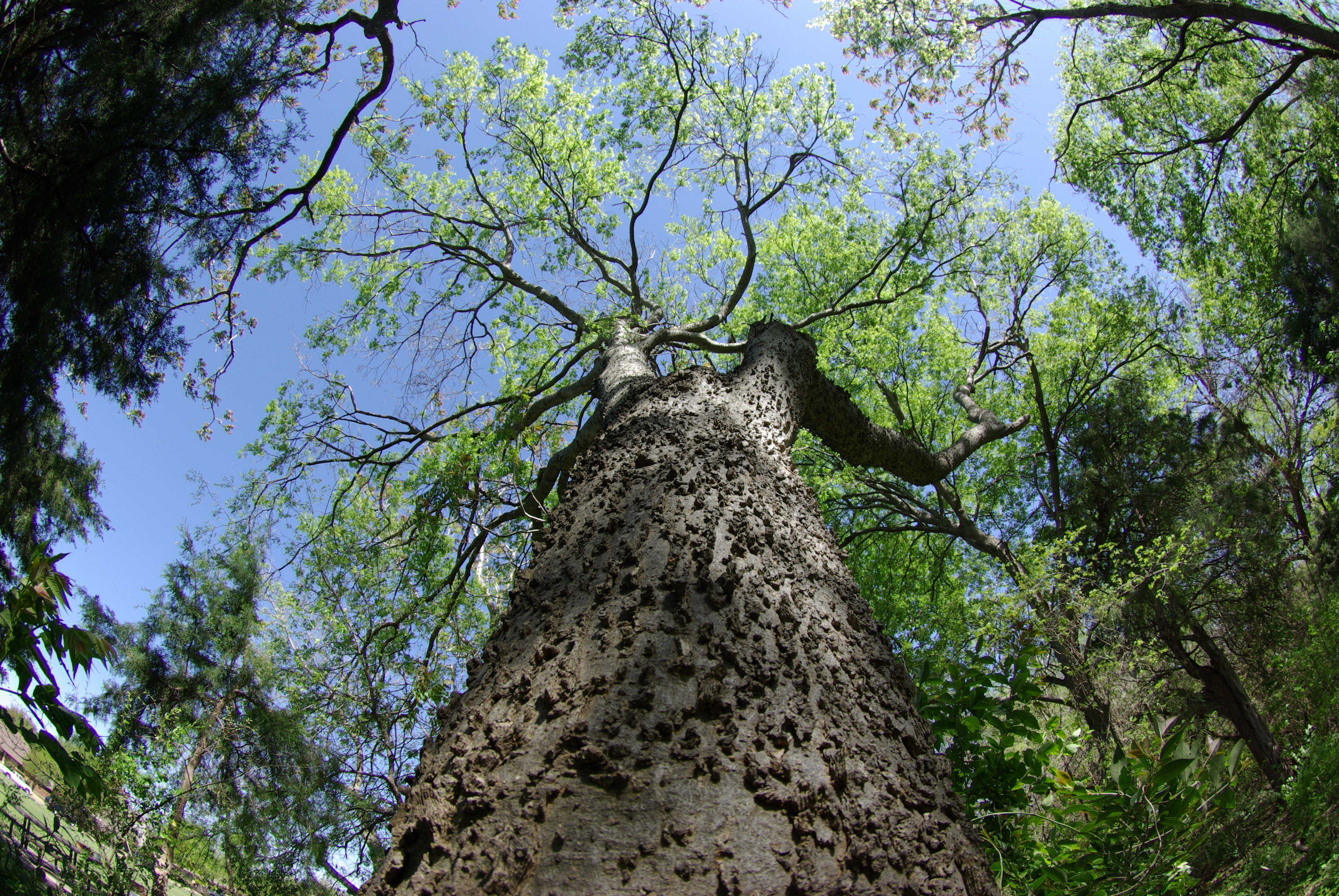 Sugarberry (Celtis laevigata) in Crowley Park, Richardson, Texas.